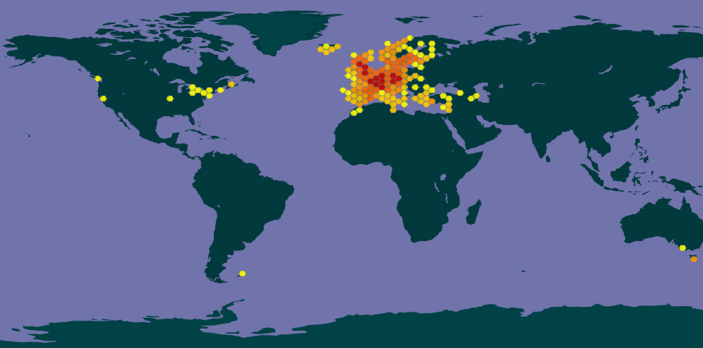 Distribution of Carex flacca